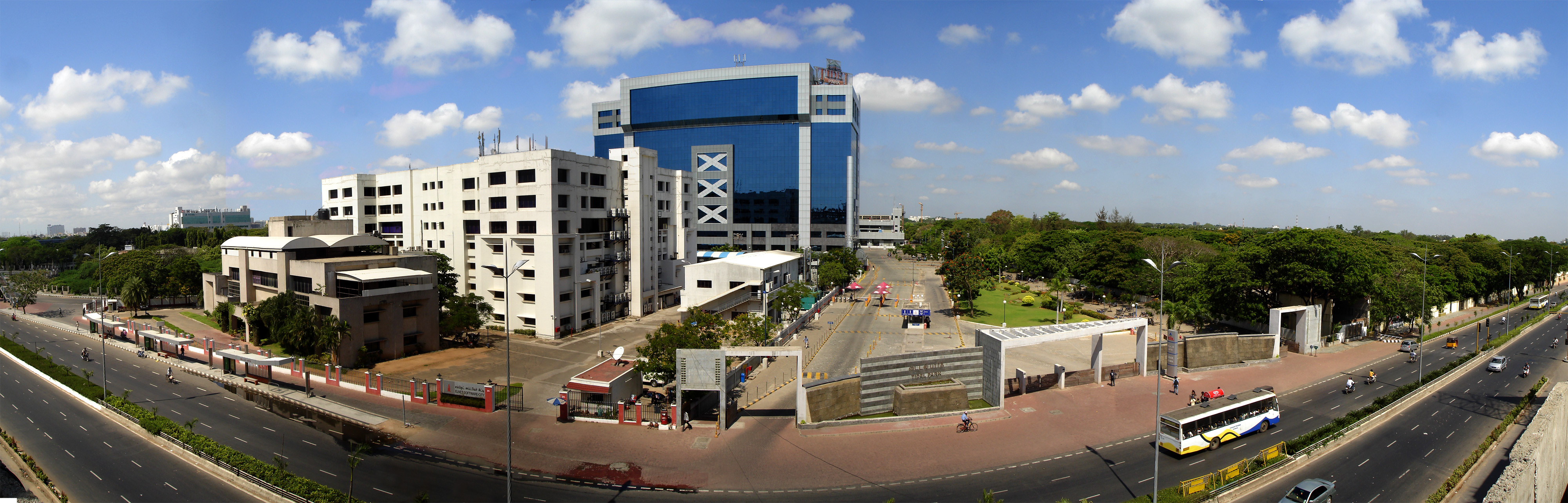 A view of Tidel Park and Rajiv Gandhi Salai from Thiruvanmiyur station.